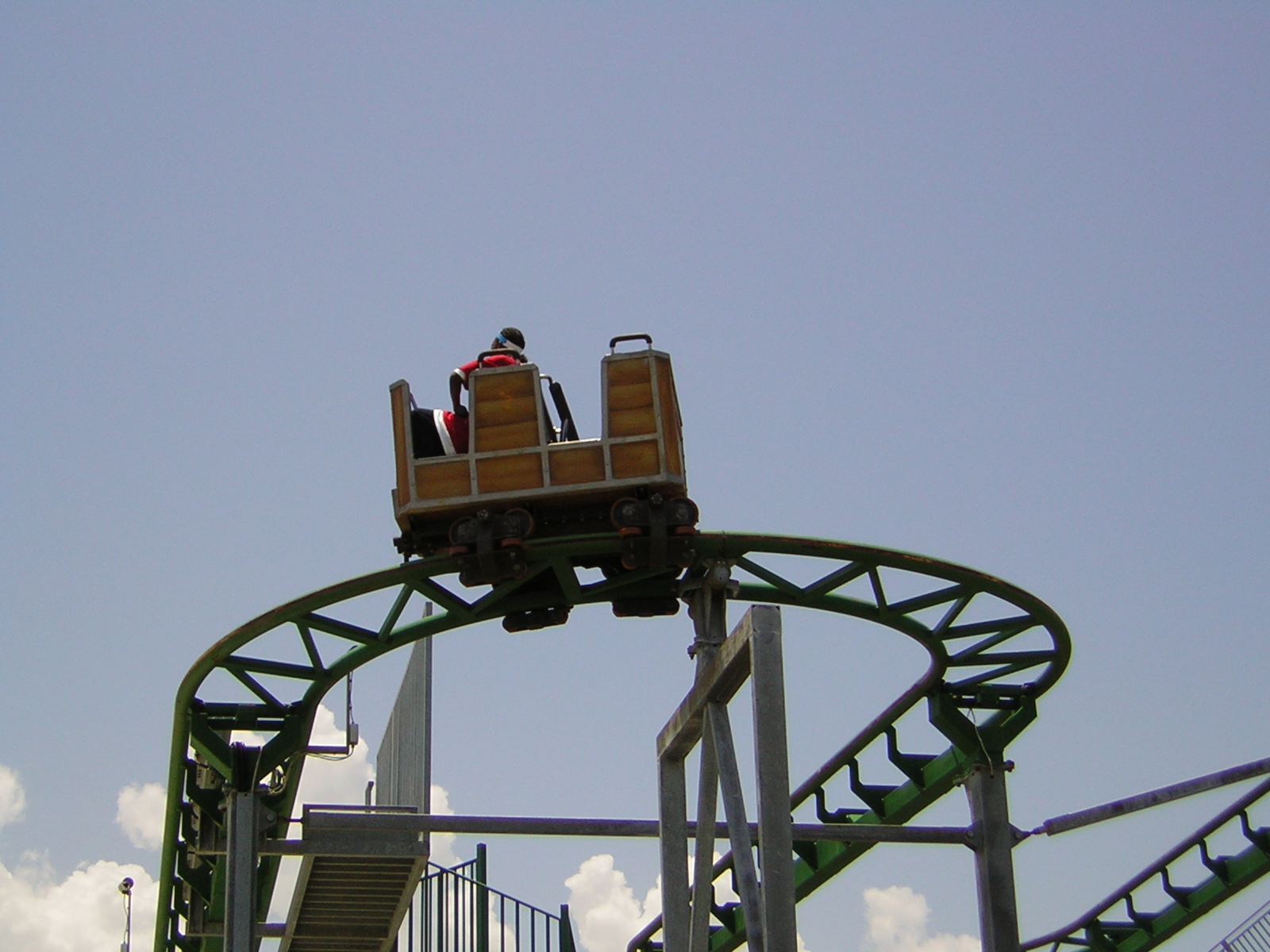 A rather small wild mouse coaster. Six Flags New Orleans, 2004